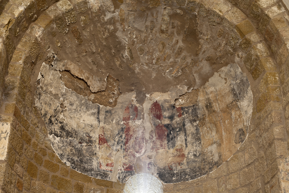 Object location41° 53′ 00.35″ N, 1° 16′ 43.19″ E